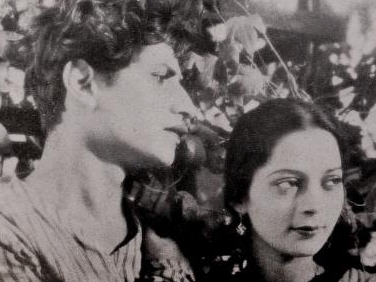 Cropped screen shot from the cine-magazine Filmindia 1938